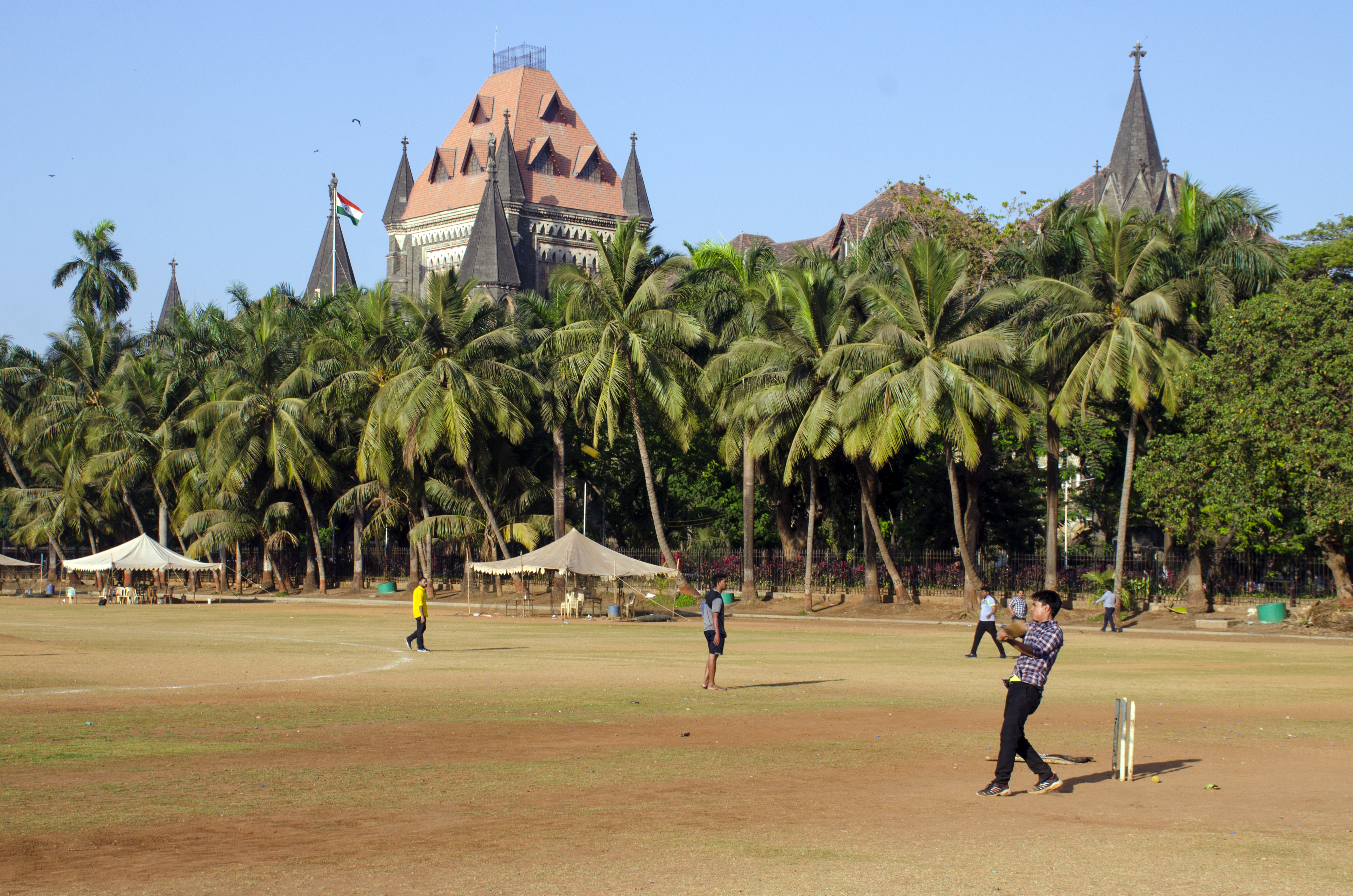 Oval Maidan, Mumbai. Boys play cricket in Oval Maidan with Mumbai High Court building in background